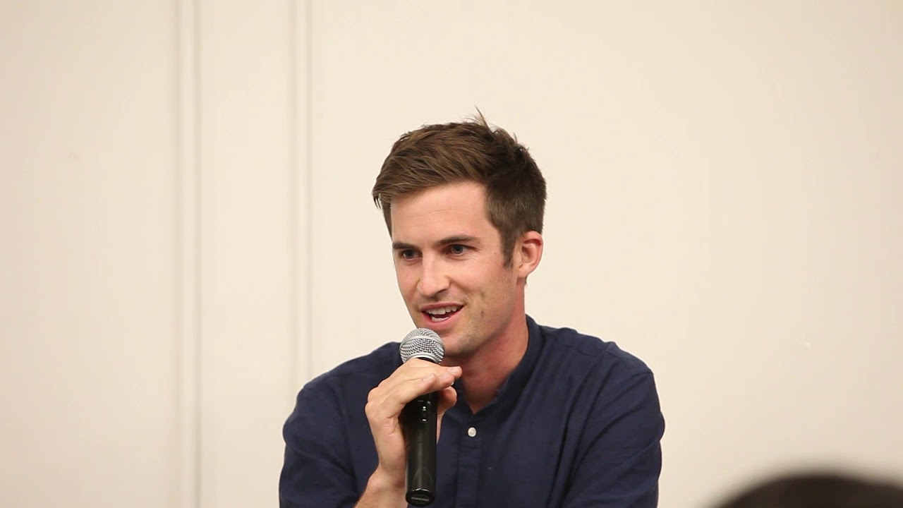 William Hockey talking at Cambrian in 2018